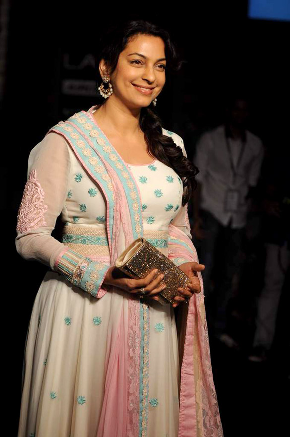 Juhi Chawla at the Lakme Fashion Week 2012 at Hotel Grand Hyatt, Mumbai. Chawla walked the ramp presenting creation of designer Neeta Lulla.